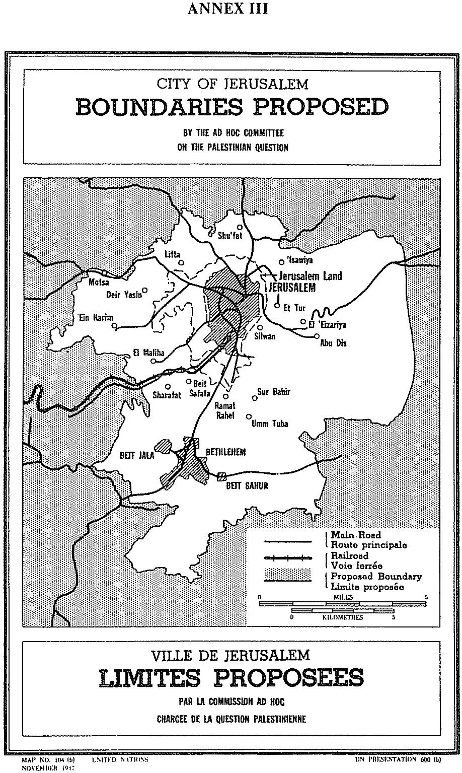 Corpus separatum as proposed in the United Nations Partition Plan for Palestine, 1947